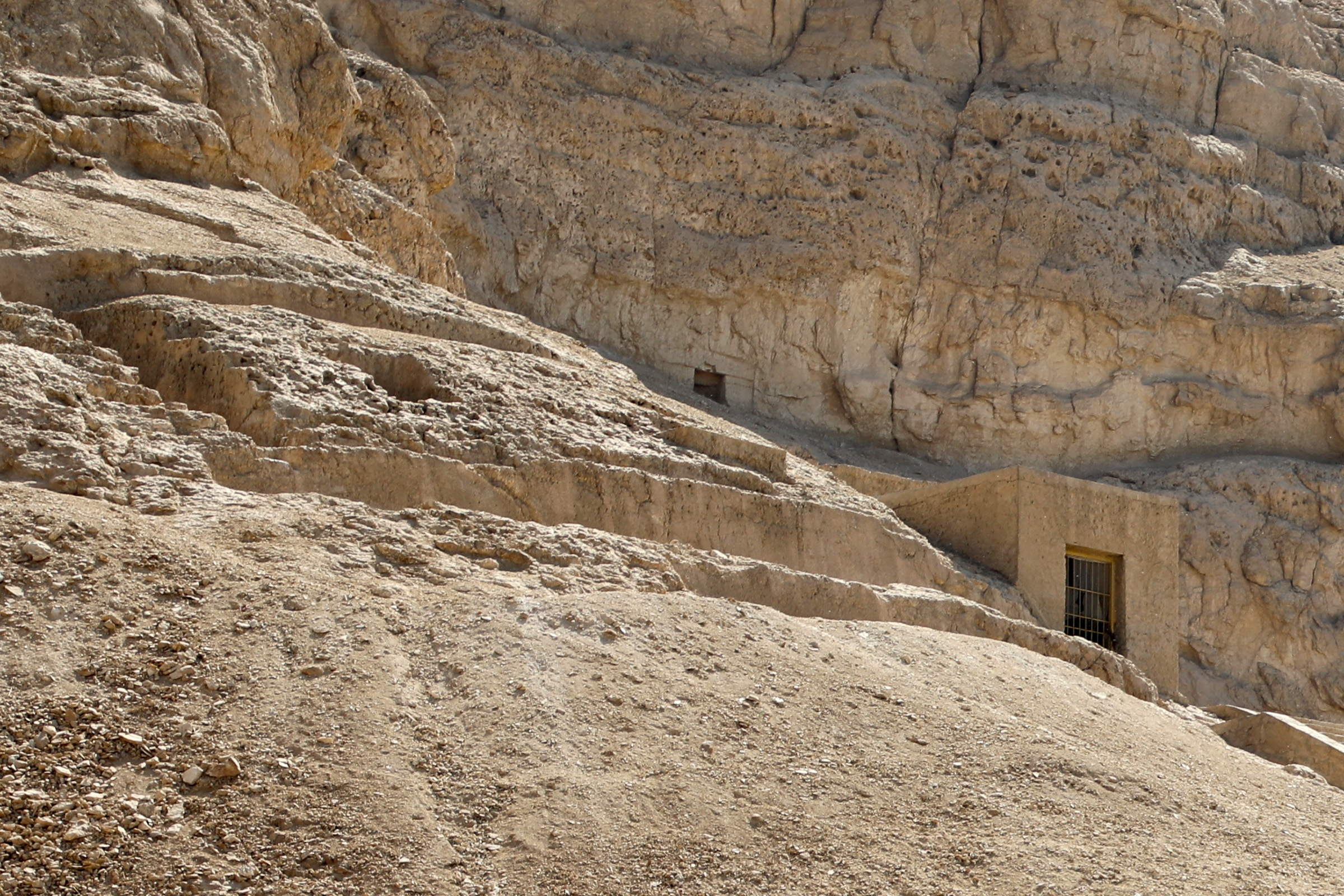 Tomb of Kai-khent (A2), al-Hammamiya necropolis, Egypt